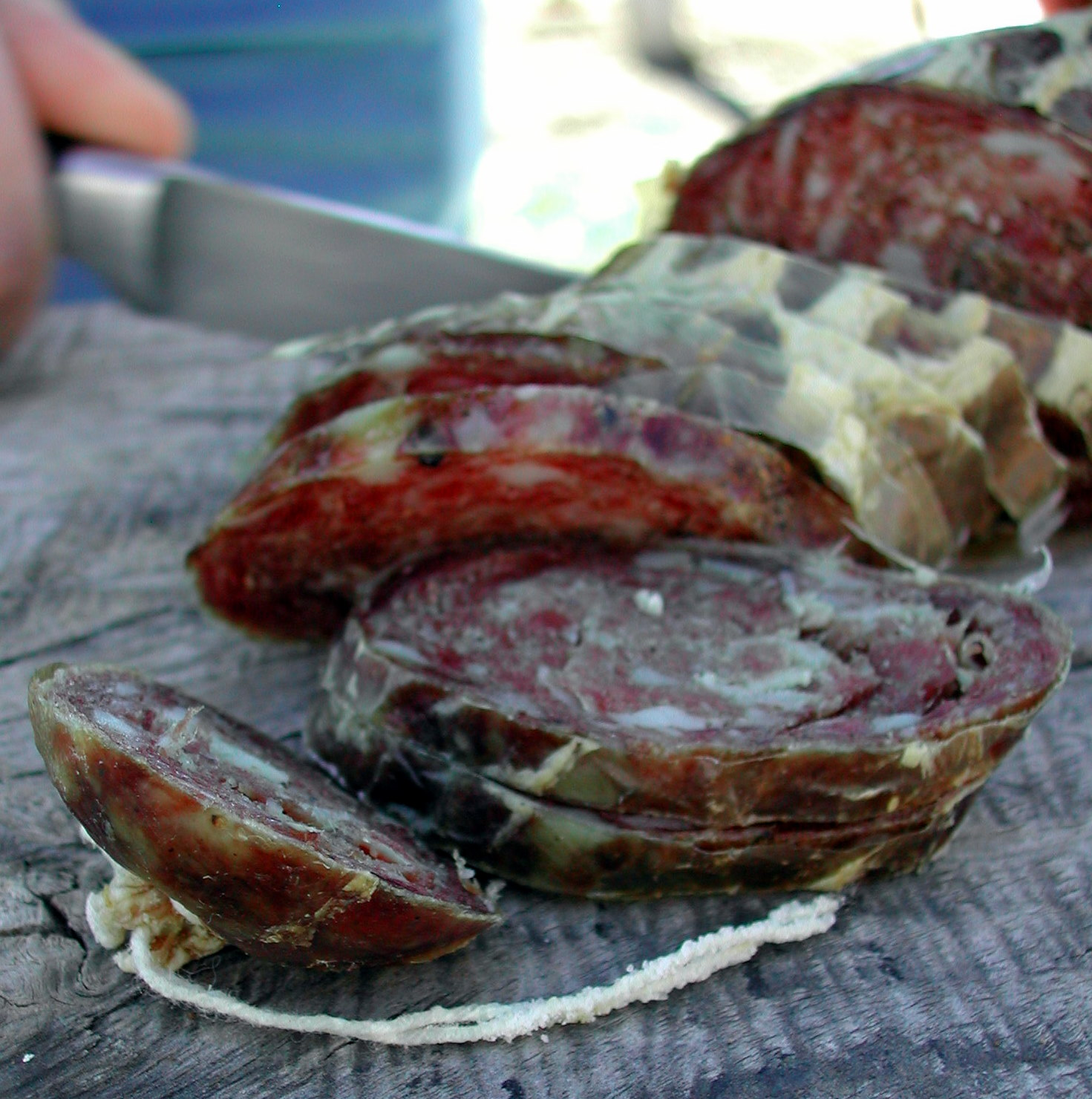 Salchichón (spiced sausage) made of wild boar